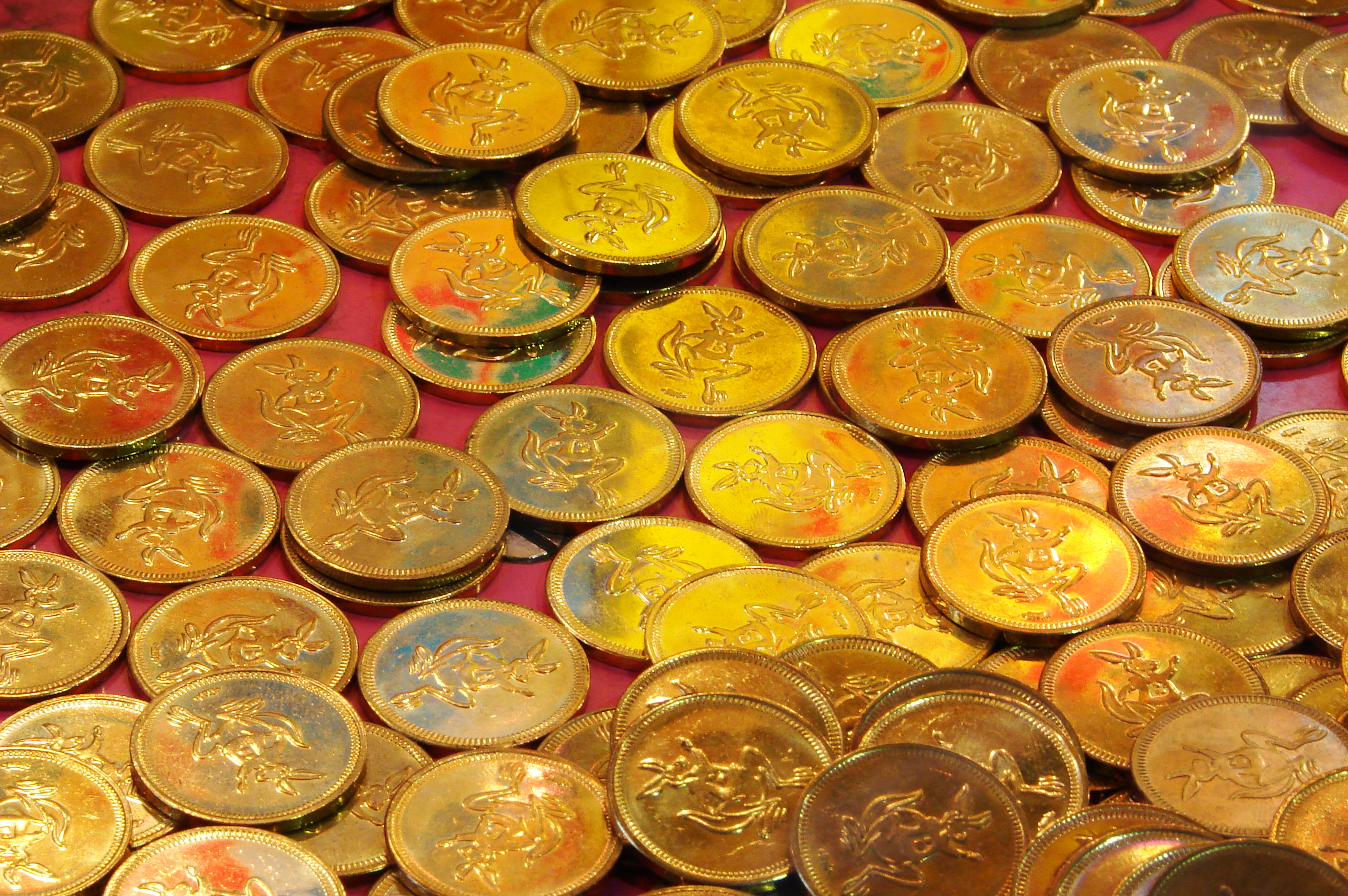 Arcade game slot machine token coins.